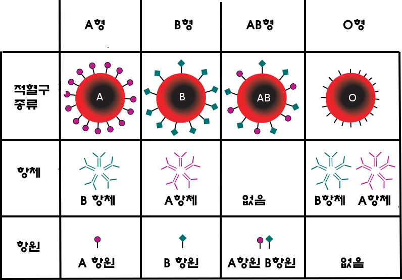 If you can, help make this description accessible to all by translating it into other languages – thanks! [edit]